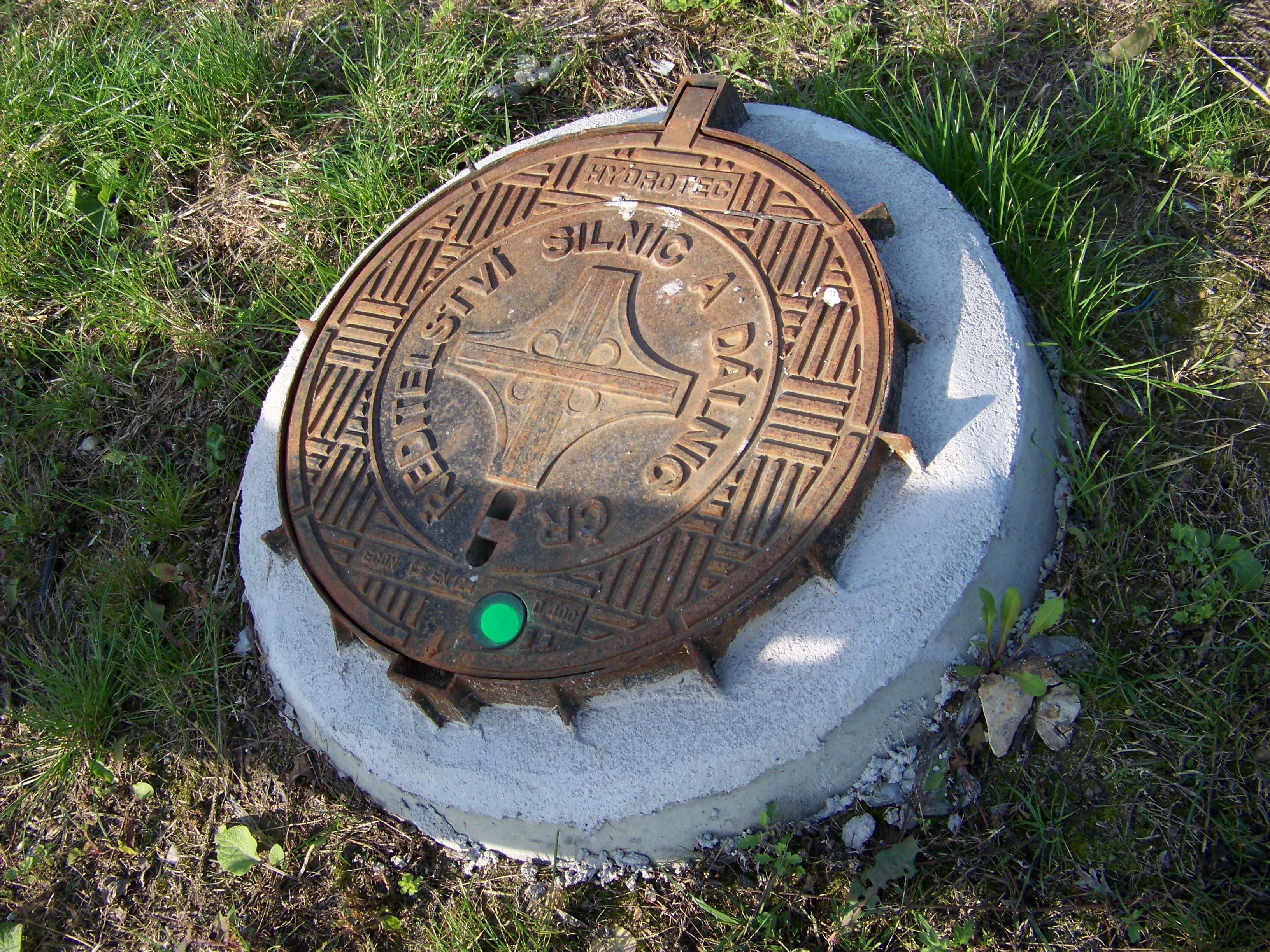 Prague-Lahovice and Zbraslav, the Czech Republic, Lahovice Interchange of R1 and R4 expressways. A manhole cover of Roads and Highways Directory. - Google Maps - Google Earth